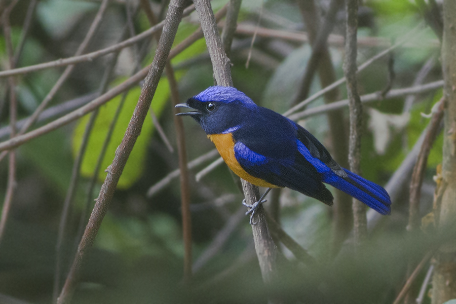 The species Rufous-bellied Niltava had been photographed from Pangolakha Wildlife Sanctuary in East Sikkim, India on 20.04.2016.